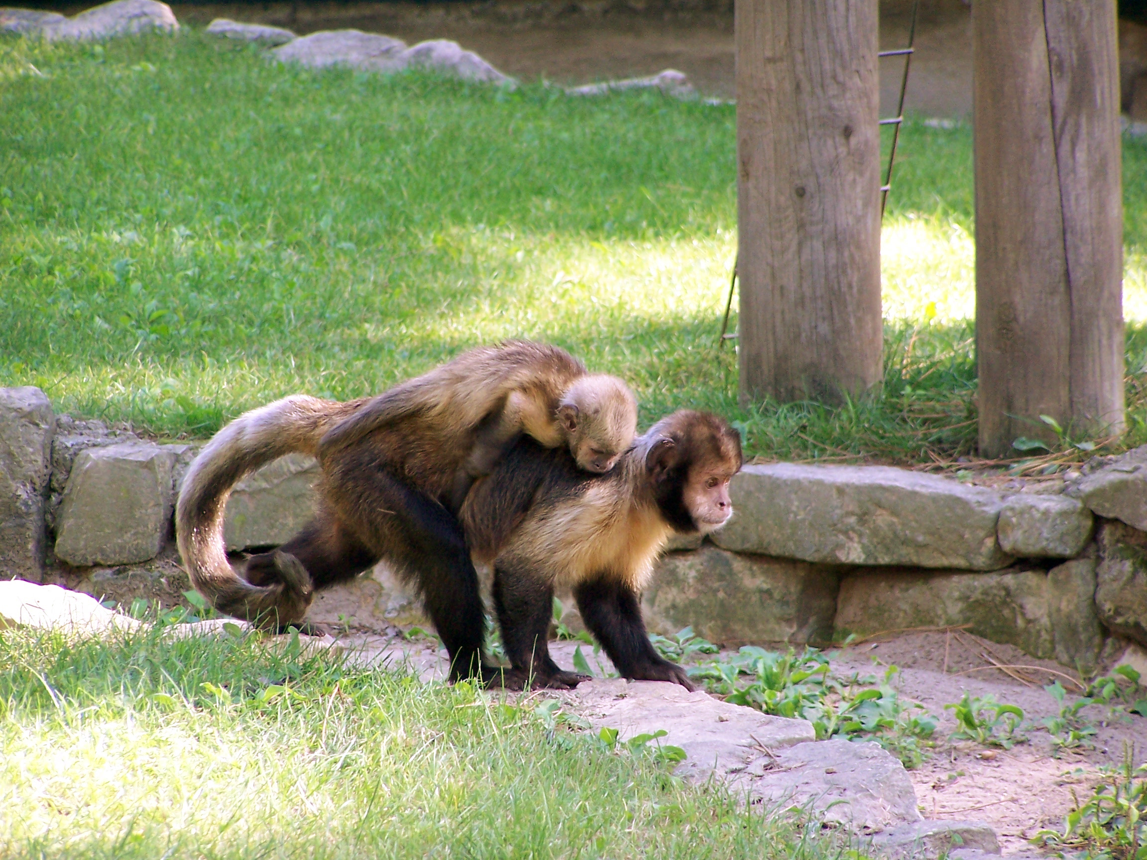 A female Yellow-Breasted Capuchin (Cebus xanthosternos) with young on its back, taken in Palmyre Zoo